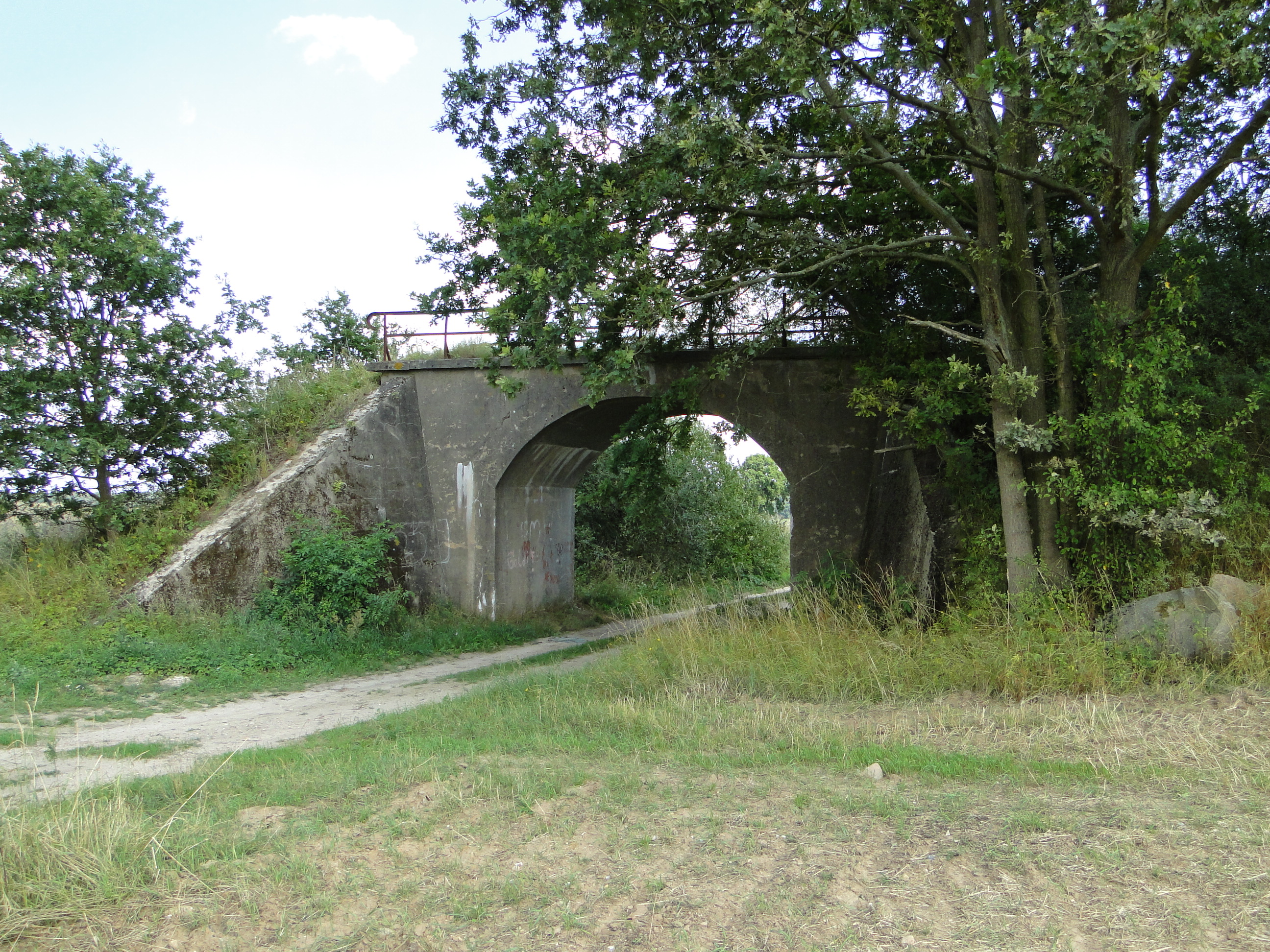 Unused railway brigde of the former rail track Pritzwalk-Suckow near Nettelbeck, disctrict Prignitz, Brandenburg, Germany